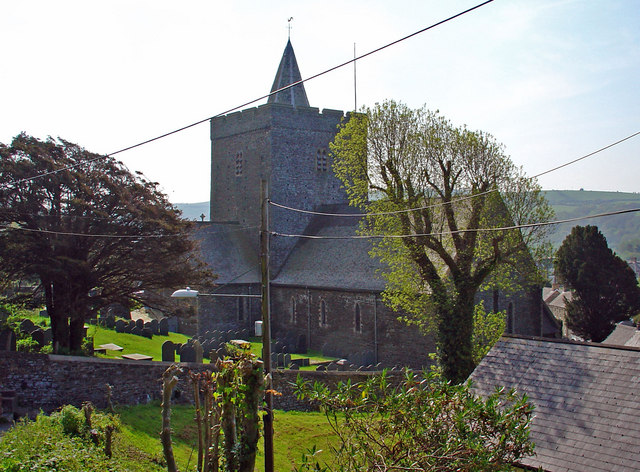 Parish church: Llanbadarn Fawr: from the northwest This church is on the site of the important "clas" of St Padarn, and for a while in the Dark Ages was the seat of a bishop. As with other clas churches, its parish was very extensive, including a large part of north Cardiganshire.